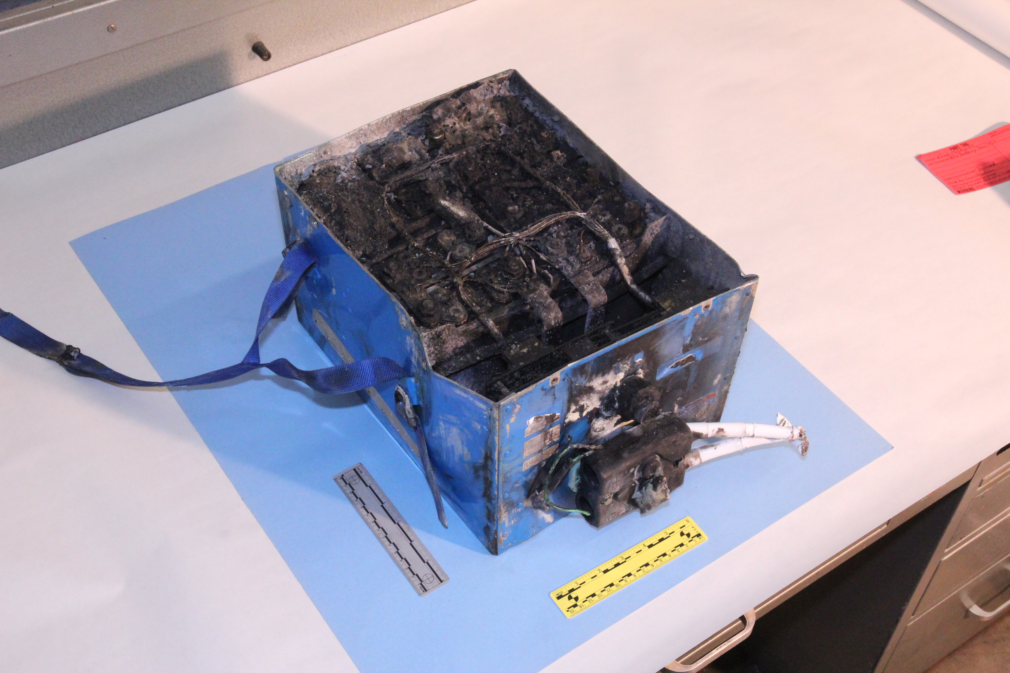 NTSB photos of the burned auxiliary power unit battery from a JAL Boeing 787 that caught fire on Jan. 7 at Boston's Logan International Airport. The dimensions of the battery are 19x13.2x10.2 inches and it weighs approximately 63 pounds (new).